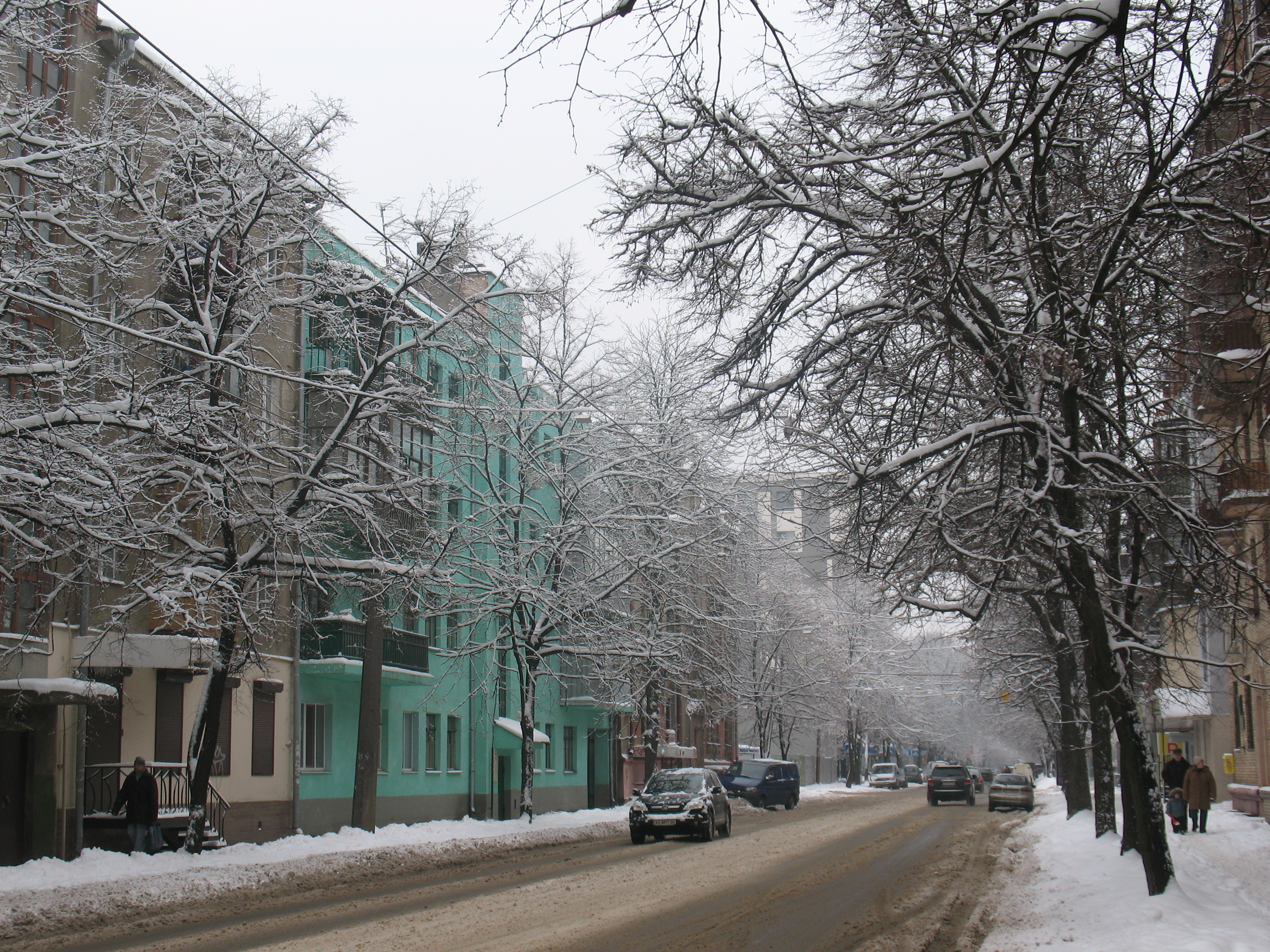 Kharkov City. Mironositskaya street in winter.